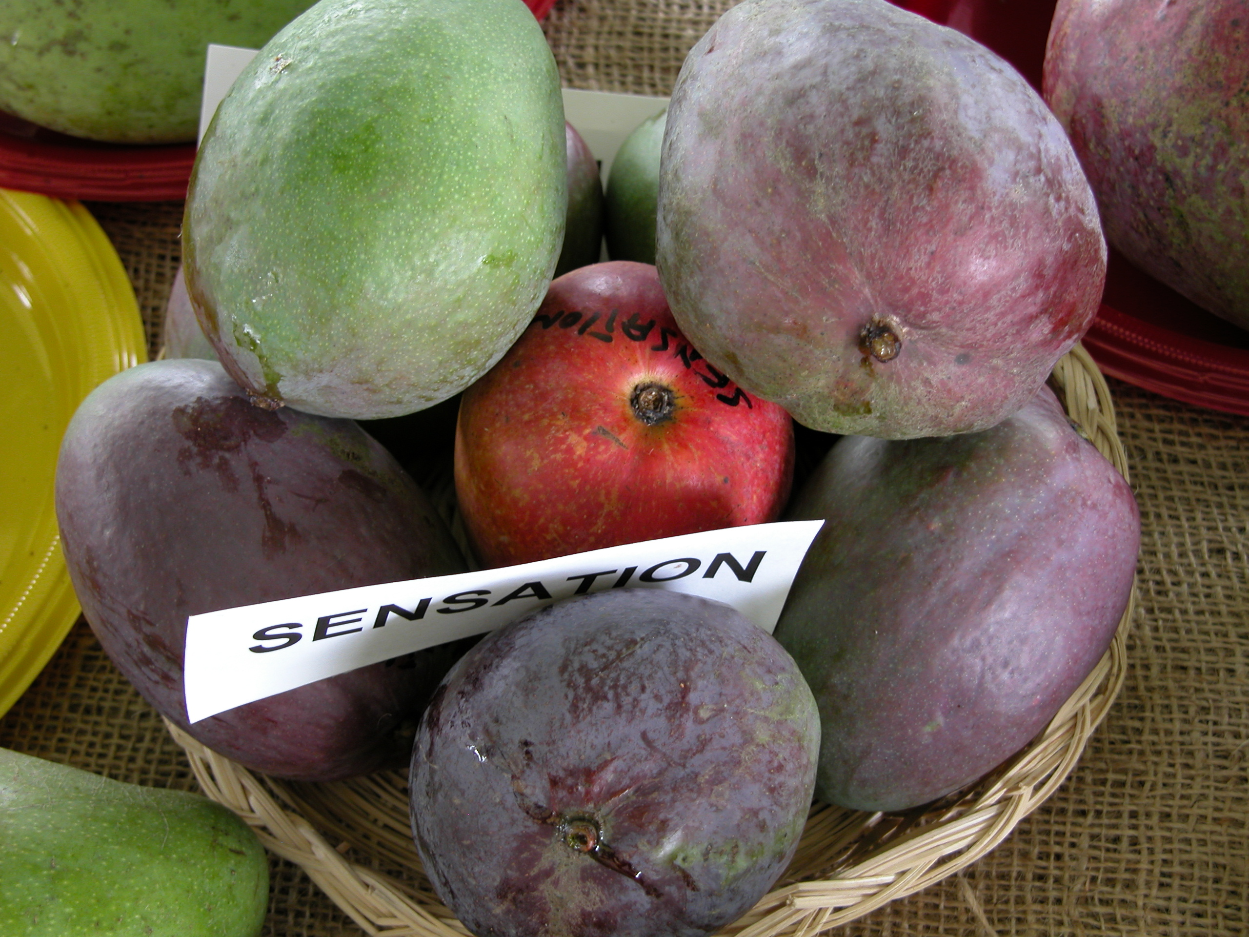 This is a photo of the display of Sensation mangoes at the Tropical Agricultural Fiesta in the Fruit And Spice Park in Homestead, Florida.